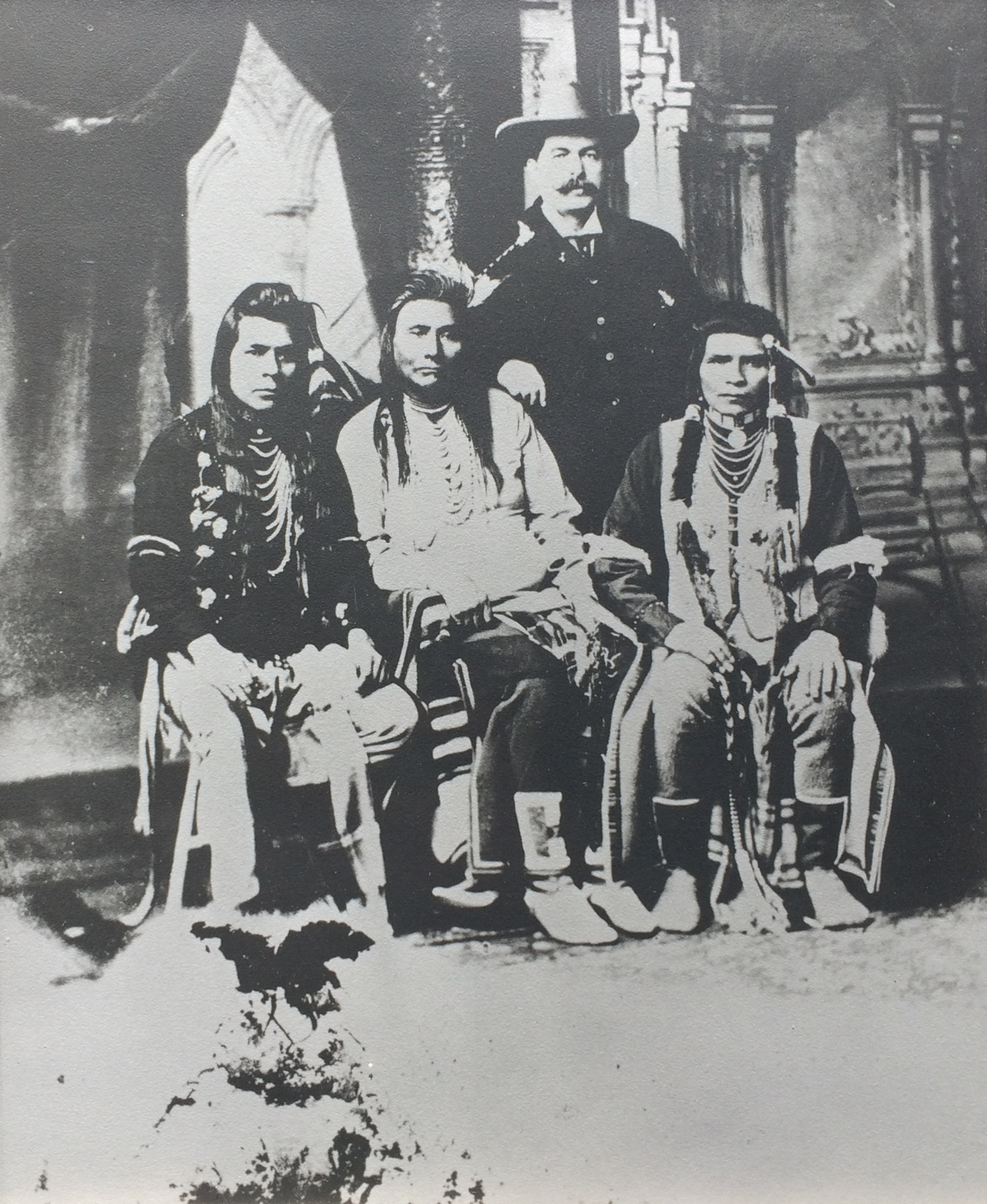 From left to right are: Norton Blackeagle, Chief Joseph, Starr Maxwell, and Chief Red Heart (PAO-PEO TULICK).